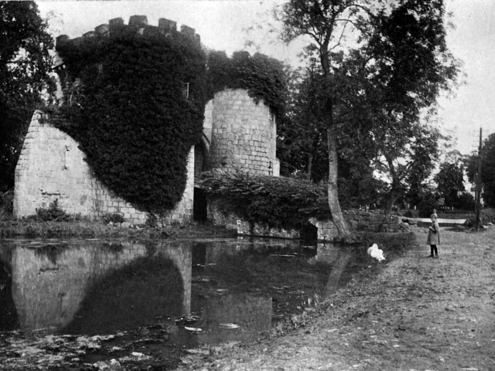 This photograph of Whittington Castle in Shropshire, England was taken before 1910. Dimensions: 126 x 89mm (5.0 x 3.5 inches).